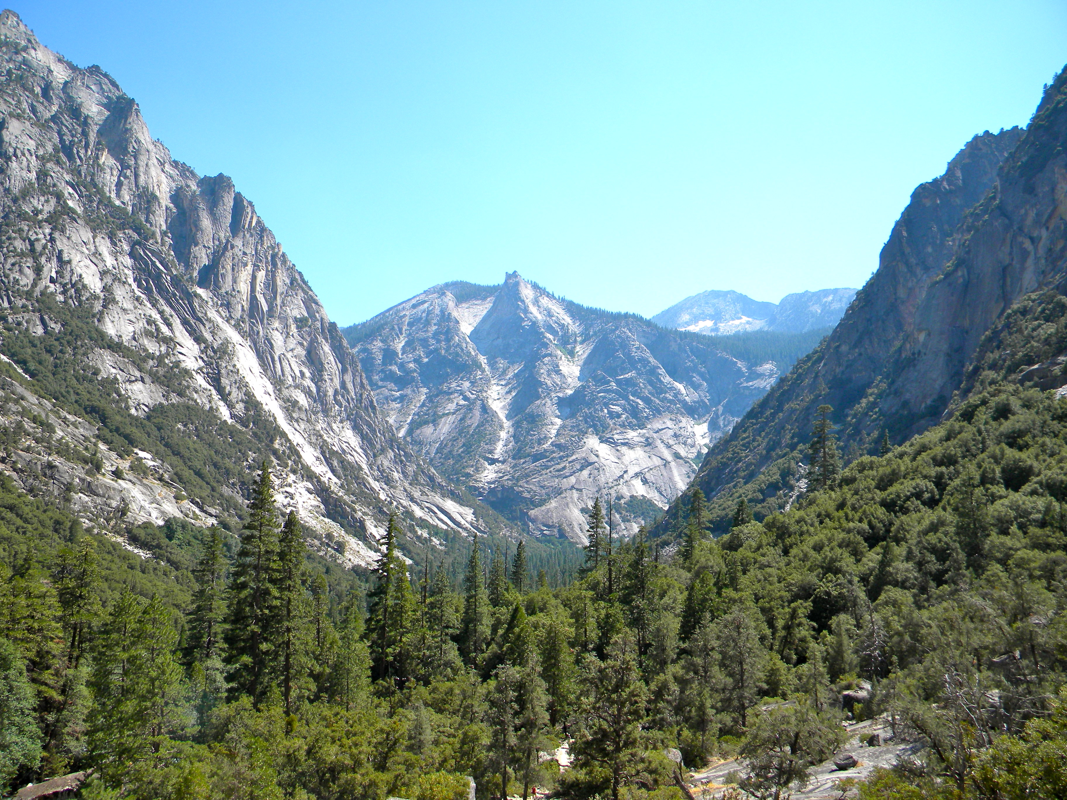 Kings Canyon as seen from the Mist Falls trail.